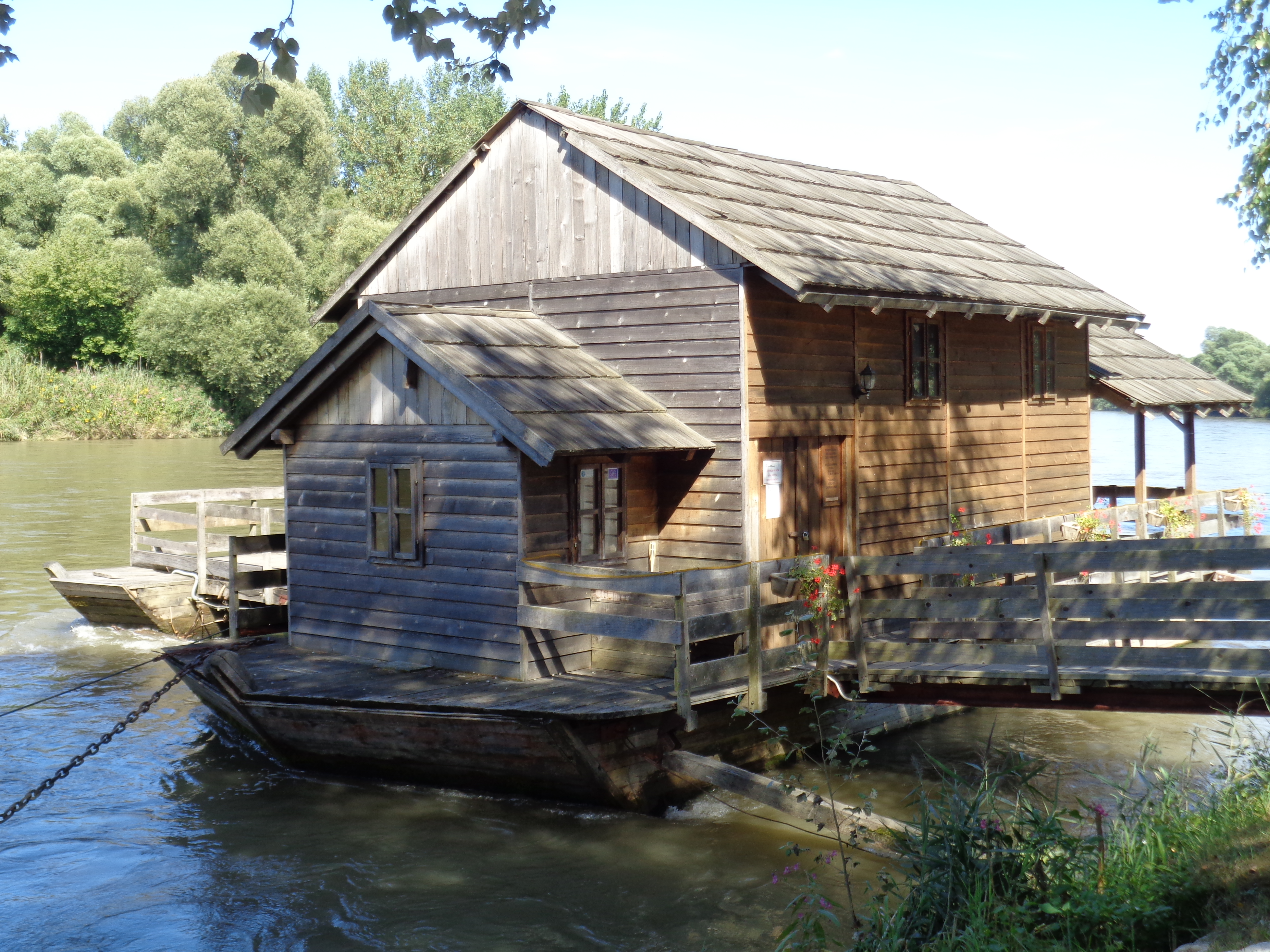 Watermill on the Mura river, Žabnik, Sveti Martin na Muri Municipality, Medjimurie County, Croatia - southwest view